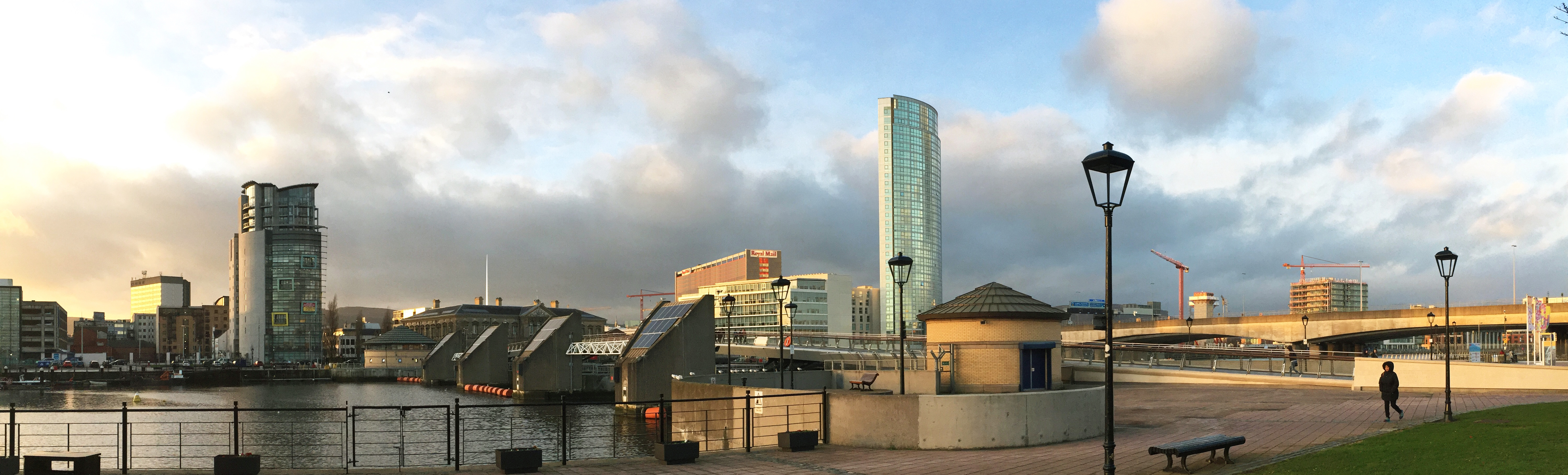 Construction on City Quays